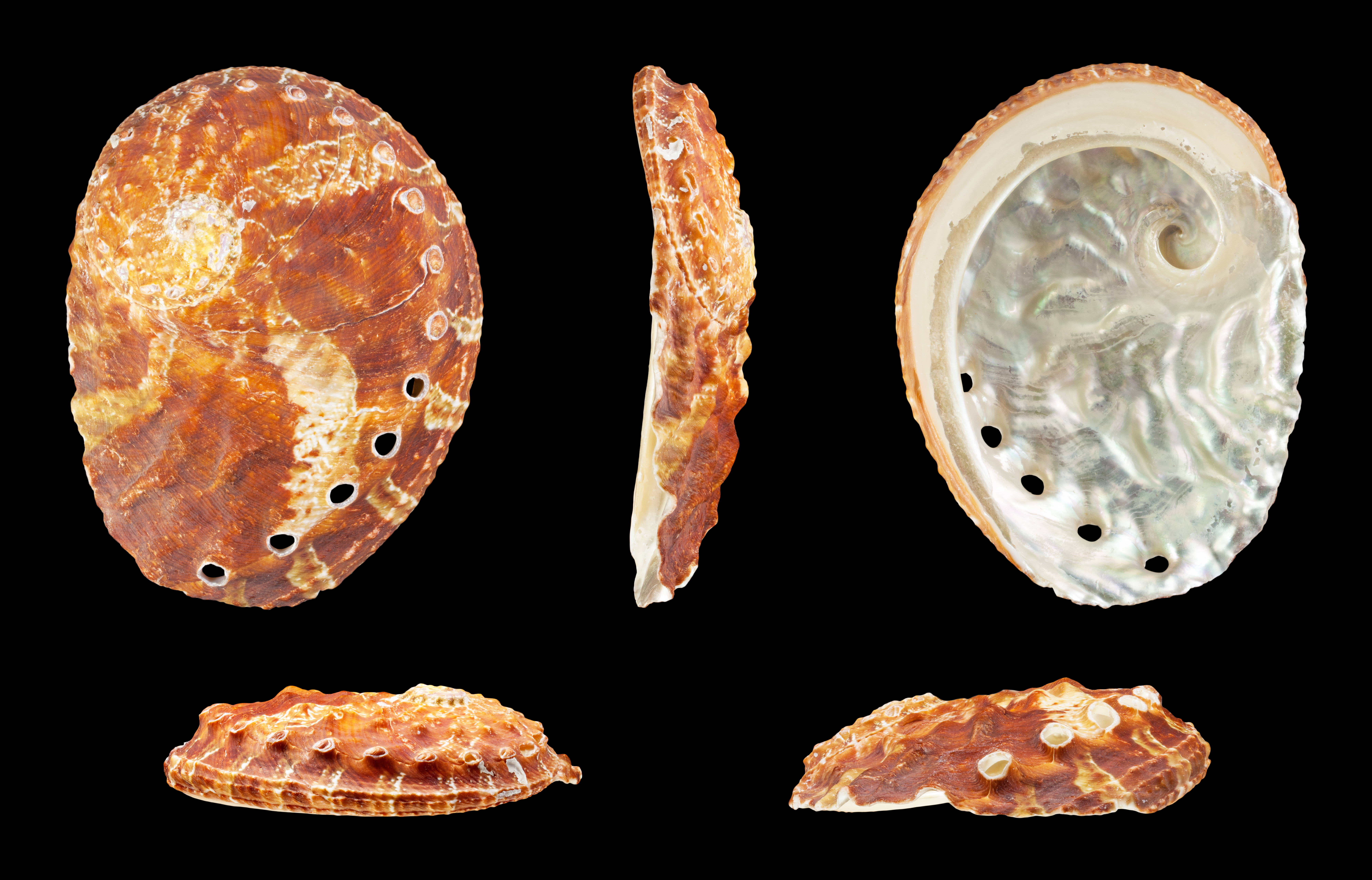 Haliotis ovina ovina Gmelin, 1791, Sheep's Ear Abalone; Length 6.0 cm; Originating from the Philippines; Shell of own collection, therefore not geocoded. Dorsal, lateral (right side), ventral, back, and front view.